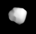 VLT's SPHERE spies rocky worlds From the description at File:Potw1749a.tif: These images were taken by ESO's SPHERE (Spectro-Polarimetric High-Contrast Exoplanet Research) instrument, installed on the Very Large Telescope at the Paranal Observatory, Chile. These strikingly-detailed views reveal four of the millions of rocky bodies in the main asteroid belt, a ring of asteroids between Mars and Jupiter that separates the rocky inner planets of the Solar System from the gaseous and icy outer planets. Clockwise from top left, the asteroids shown here are 29 Amphitrite, 324 Bamberga, 2 Pallas, and 89 Julia. Named after the Greek goddess Pallas Athena, 2 Pallas is about 510 kilometres wide. This makes it the third largest asteroid in the main belt and one of the biggest asteroids in the entire Solar System. It contains about 7% of the mass of the entire asteroid belt — so hefty that it was once classified as a planet. A third of the size of 2 Pallas, 89 Julia is thought to be named after St Julia of Corsica. Its stony composition led to its classification as an S-type asteroid. Another S-type asteroid is 29 Amphitrite, which was only discovered in 1854. 324 Bamberga, one of the largest C-type asteroid in the asteroid belt, was discovered even later: Johann Palisa found it in 1892. Today, it is understood that C-type asteroids may actually be bodies from the outer Solar System following the migration of the giant planets. As such, they may contain ice in their interior. Although the asteroid belt is often portrayed in science fiction as a place of violent collisions, packed full of large rocks too dangerous for even the most skilled of space pilots to navigate, it is actually very sparse. In total, the asteroid belt contains just 4% of the mass of the Moon, with about half of this mass contained in the four largest residents: Ceres, 4 Vesta, 2 Pallas, and 10 Hygiea.